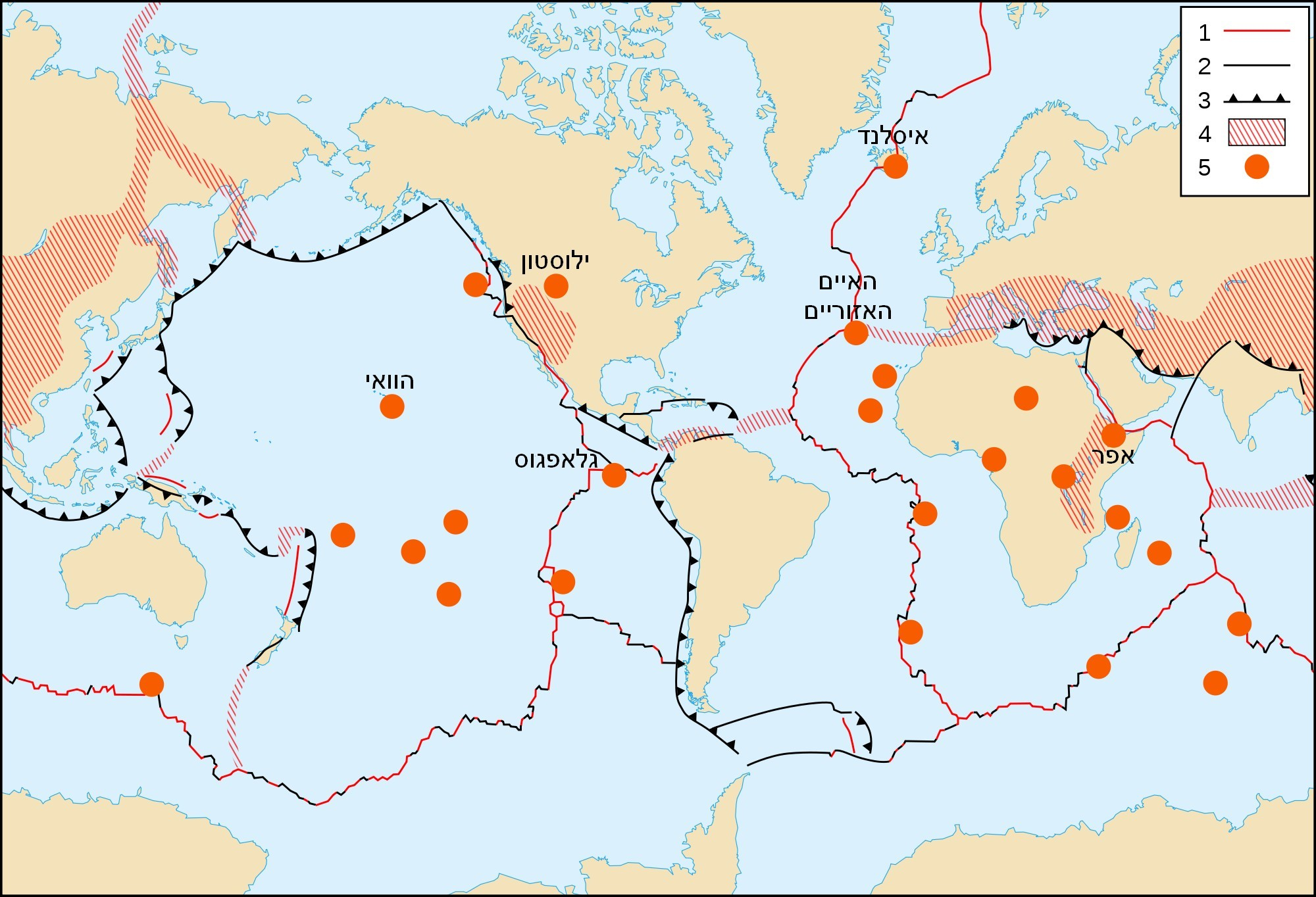 World map in English of selected prominent geological hotspots.